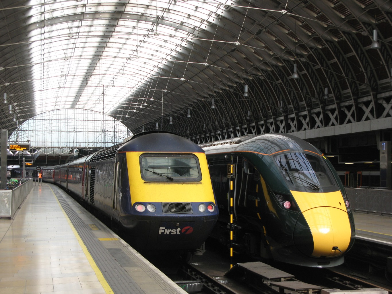 Diesel InterCIty 125 43030 and InterCity Electric Train 800029 meet up at London's Paddington station.